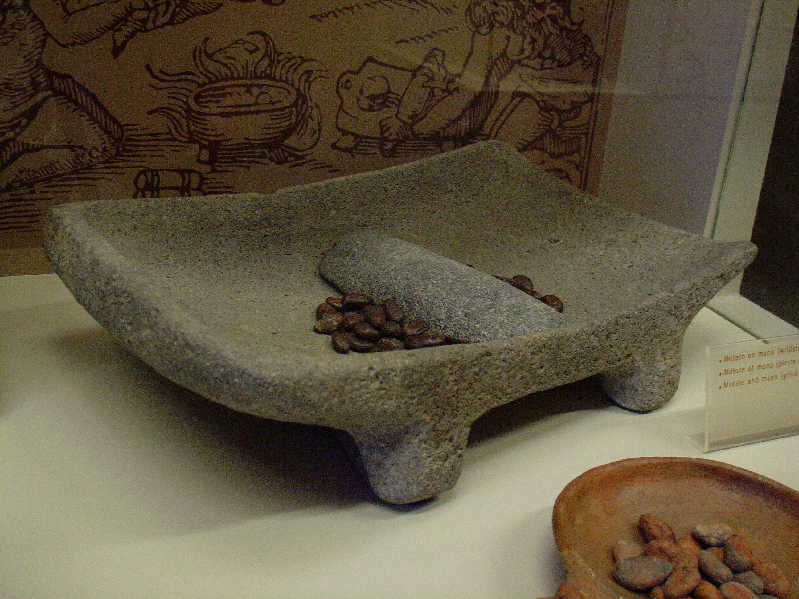 Metate and mano used for grinding cacao during the Mayan period. Coco-Story, the chocolate museum Wijnzkstraat 2 (Sint-Jansplein), Bruges (Belgium)